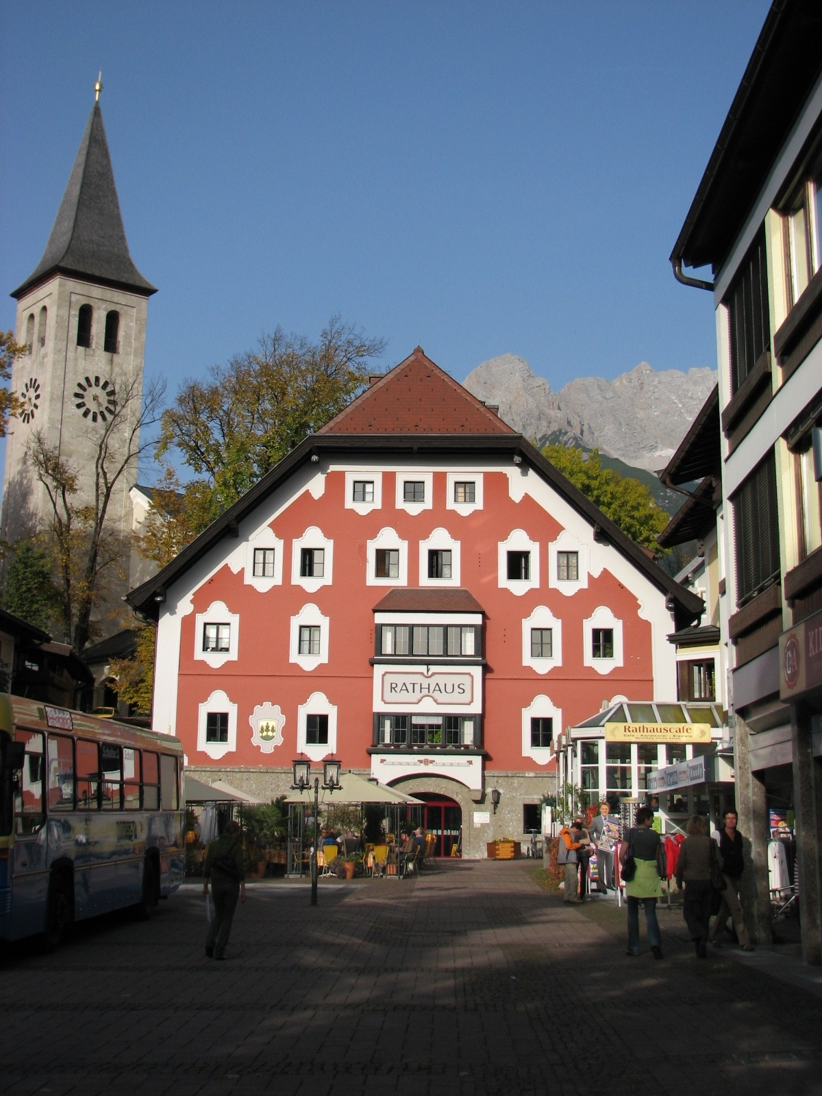 Saalfelden centre, church and town hall